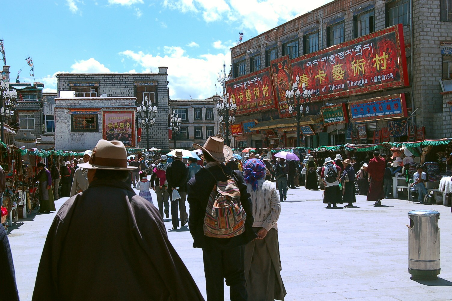 Details of the Barkhor (Lhasa) in 2007